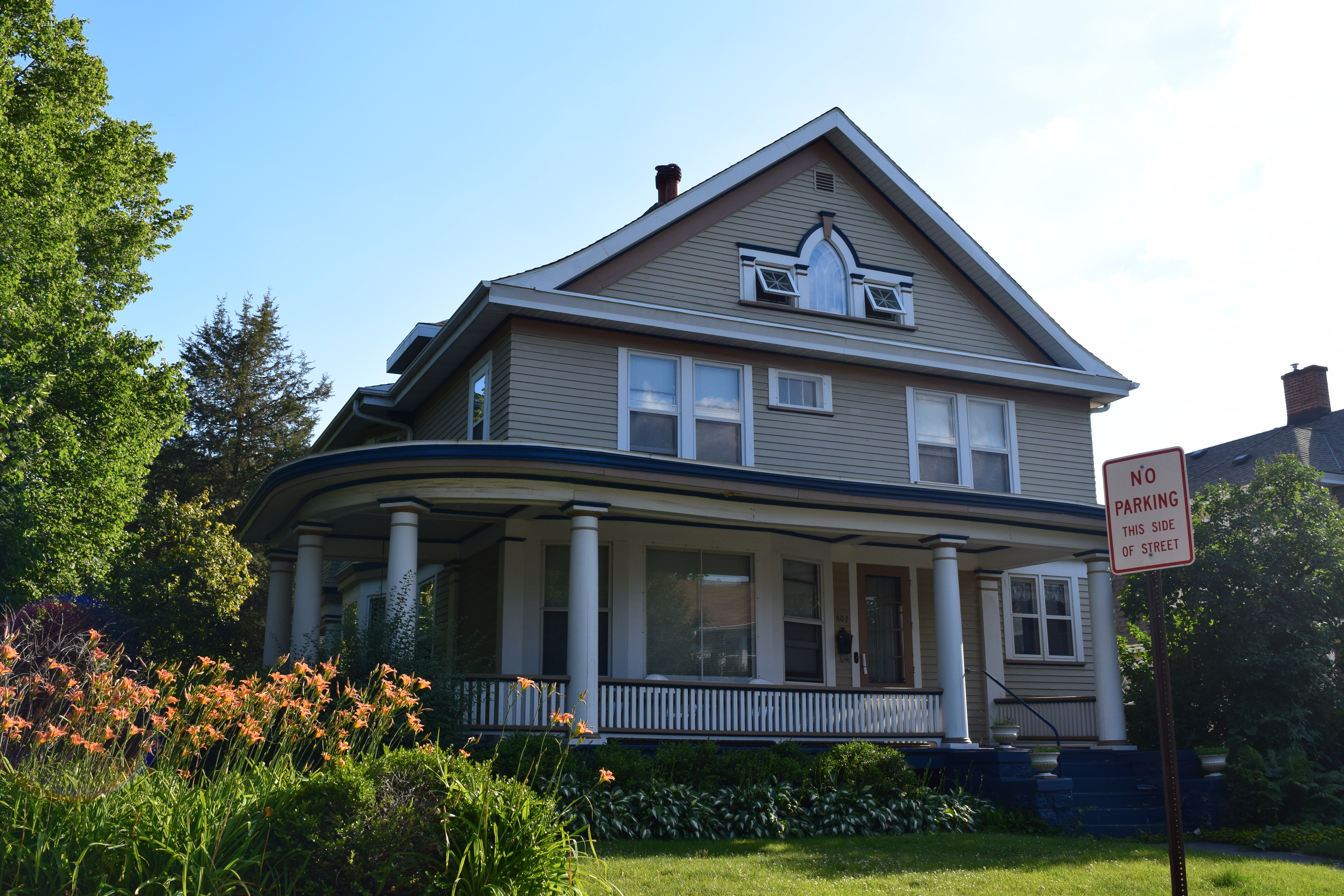 House at 803 Oregon Street in the Oakland-Dousman Historic District in Green Bay, Wisconsin.